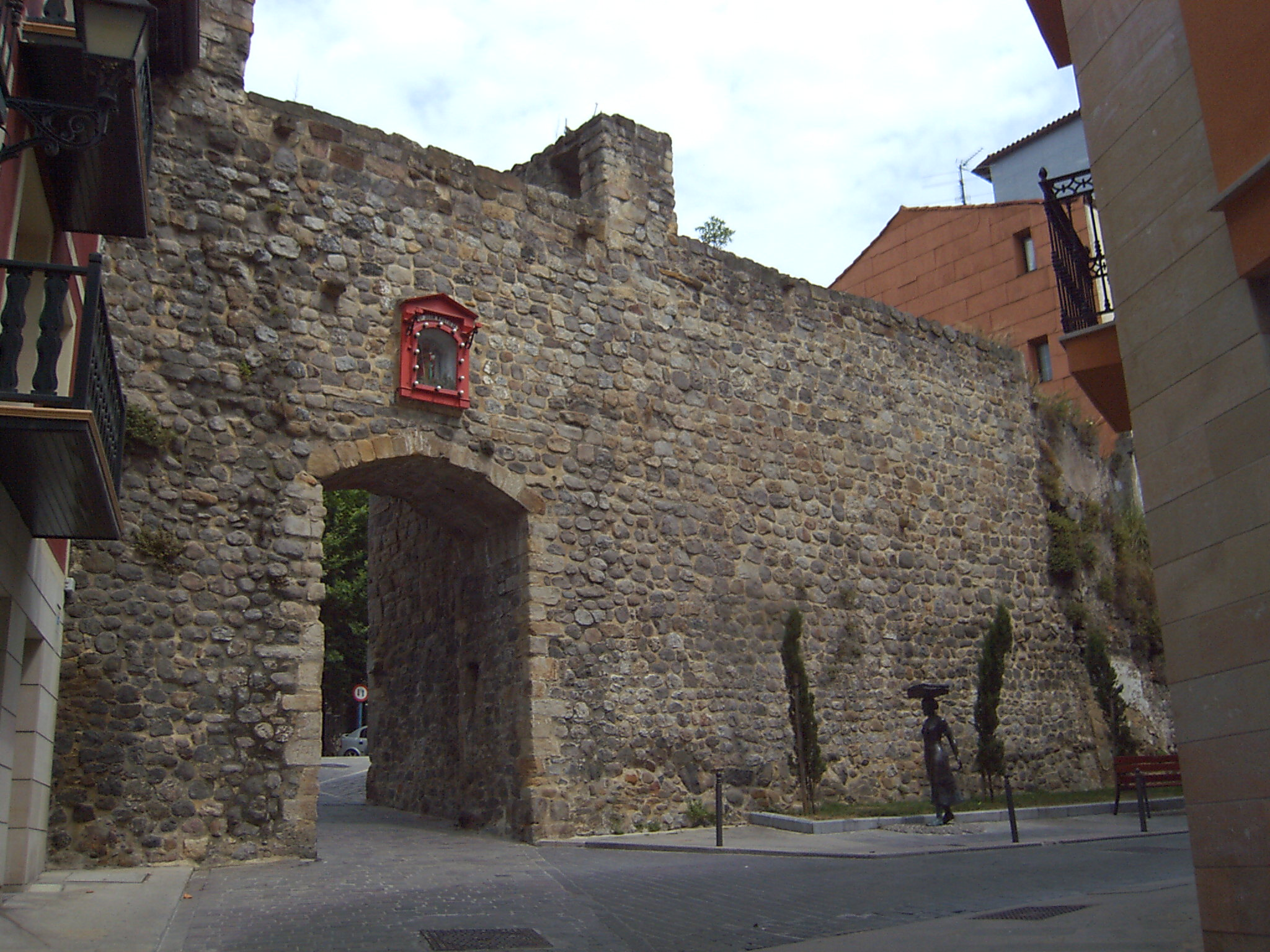 Bermeo San Juan walldoor.